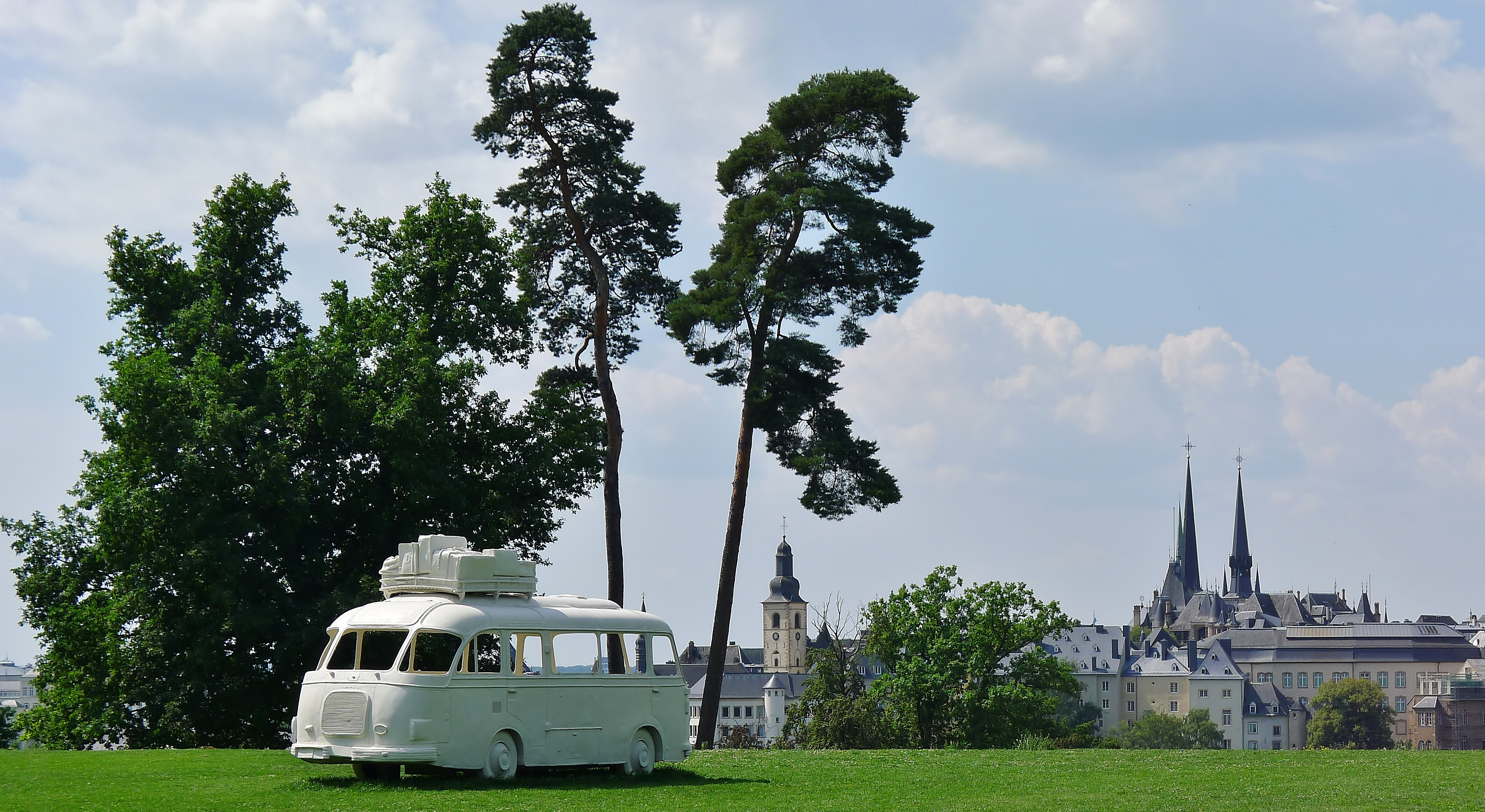 Museum of Modern Art, Luxembourg